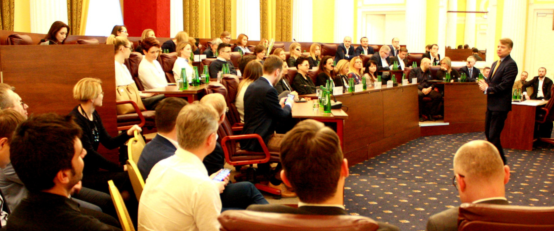 AMP Warsaw session 2017